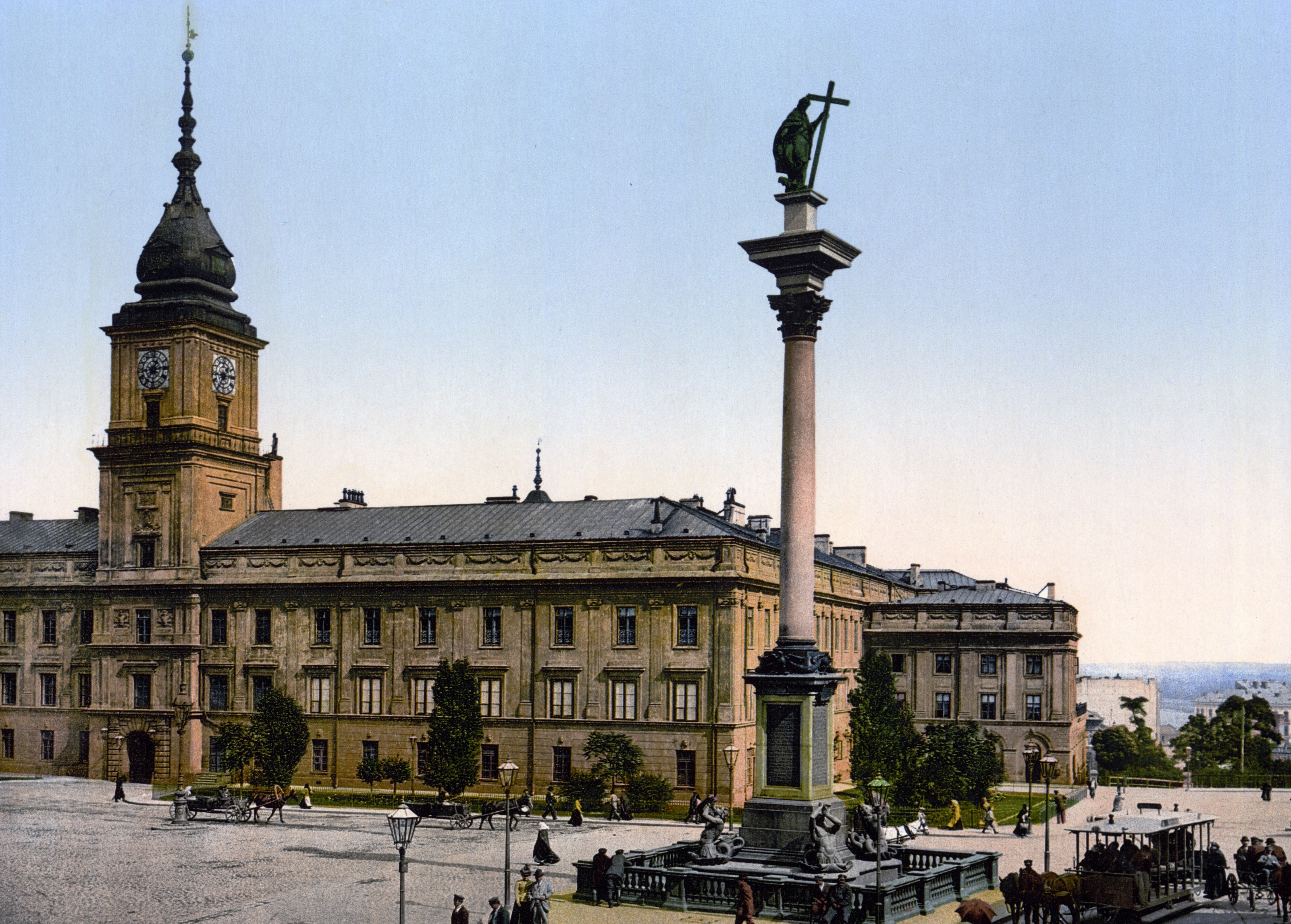 Royal Castle Warsaw about 1900